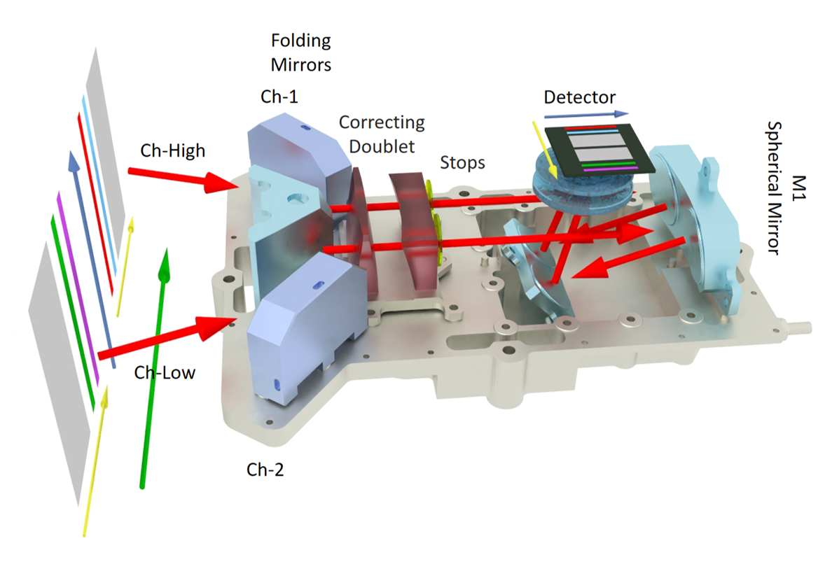 Cammino ottico di STC. A sinistra i due canali divergenti che guardano verso il pianeta, a destra la testa ottica off-axis.